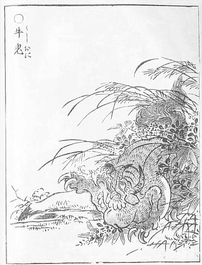 Ushi-oni illustrated by Toriyama Sekien (牛鬼)